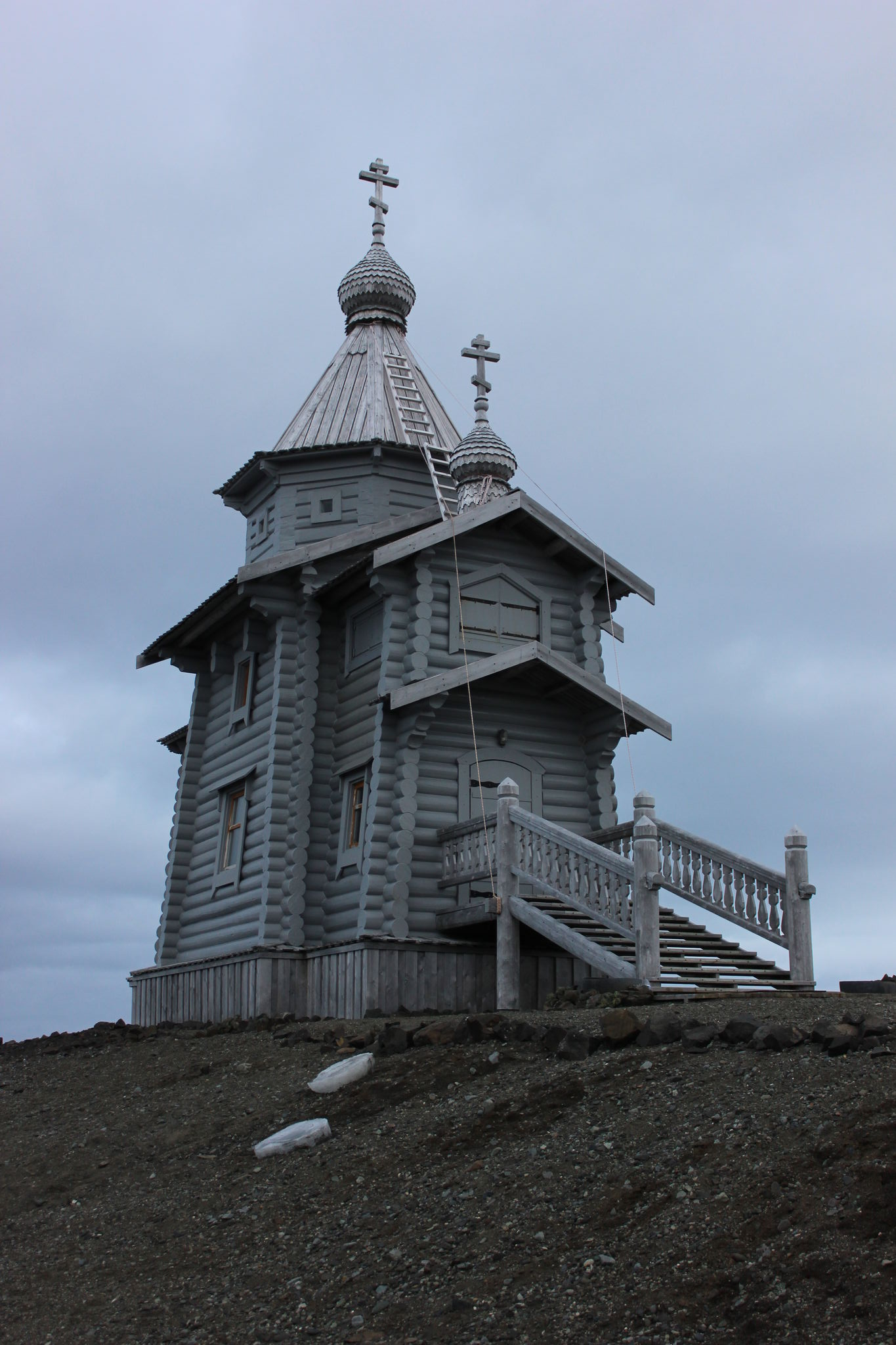 Trinity Church, Antarctica